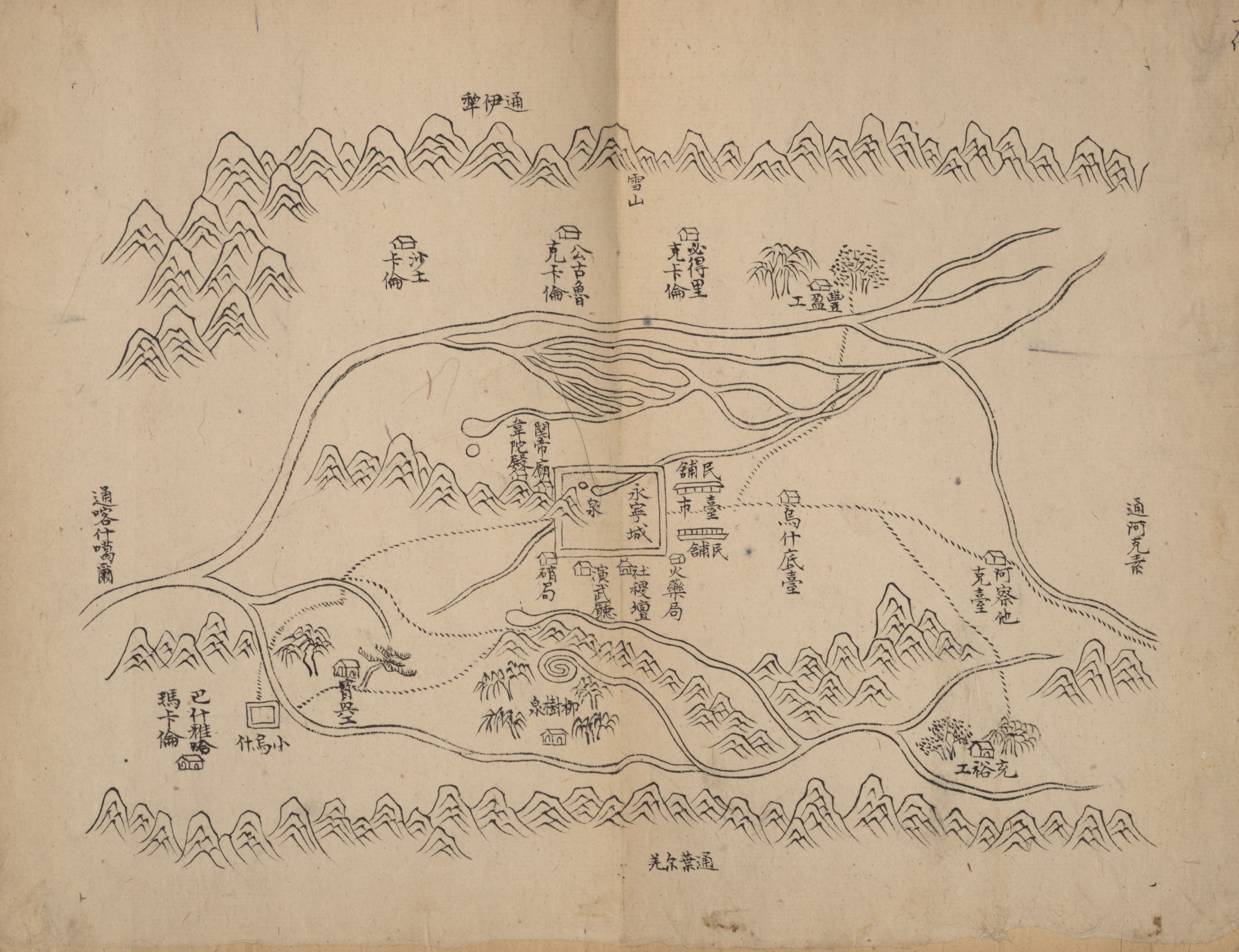 Xinjiang Quan Tu (Atlas of Xinjiang). Chart 13 - Uqturpan. Shows the topography, cities, villages and roads with the military posts in the Xinjiang. Also shows the administrative system and local divisions of Xinjiang before the 24th year of Emperor Qianlong (1759). Not drawn to scale. Relief shown pictorially.